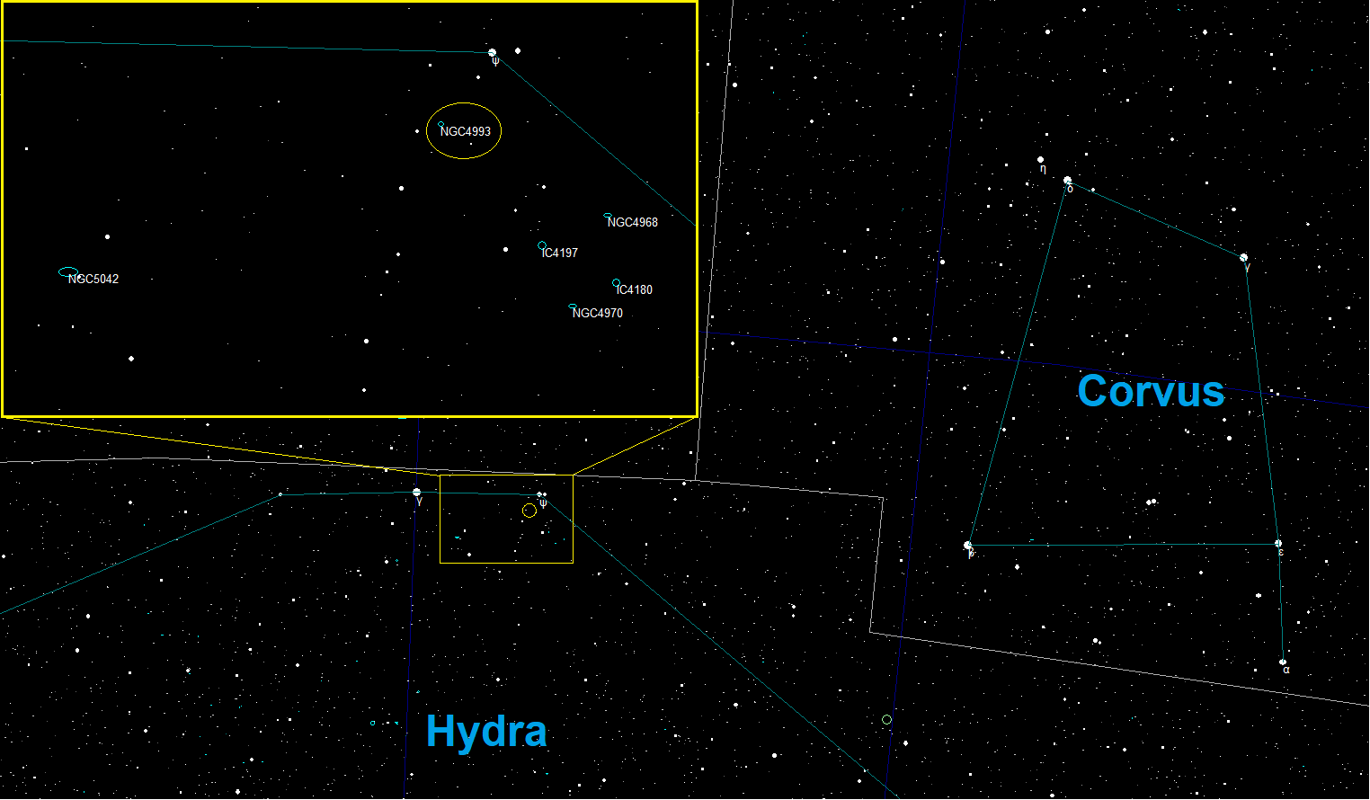 NGC 4993 star map with Hydra and Corvus